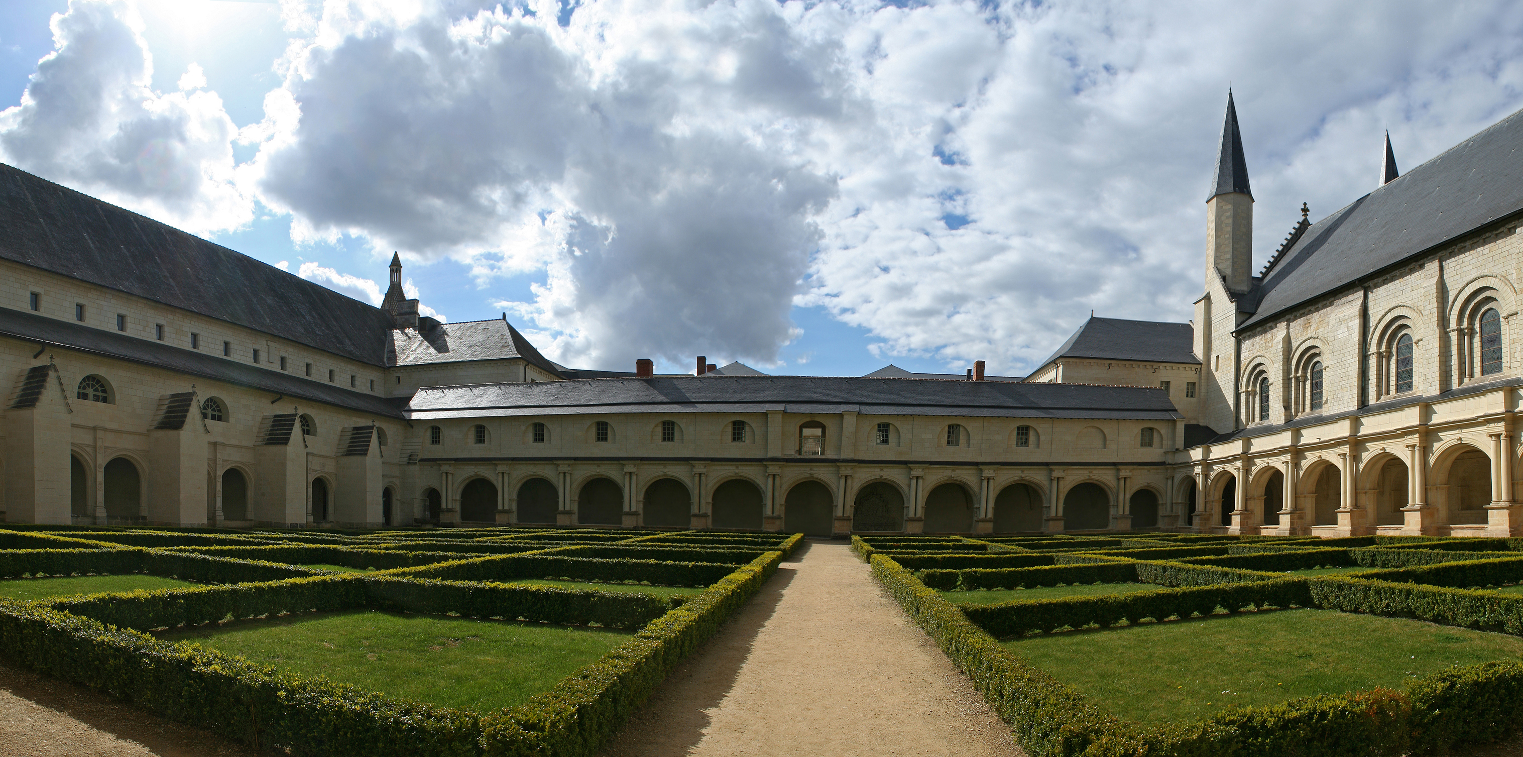 Grand Moutier cloister, Fontevraud Abbey. Panorama manually stiched with photoshop from four individual pictures.